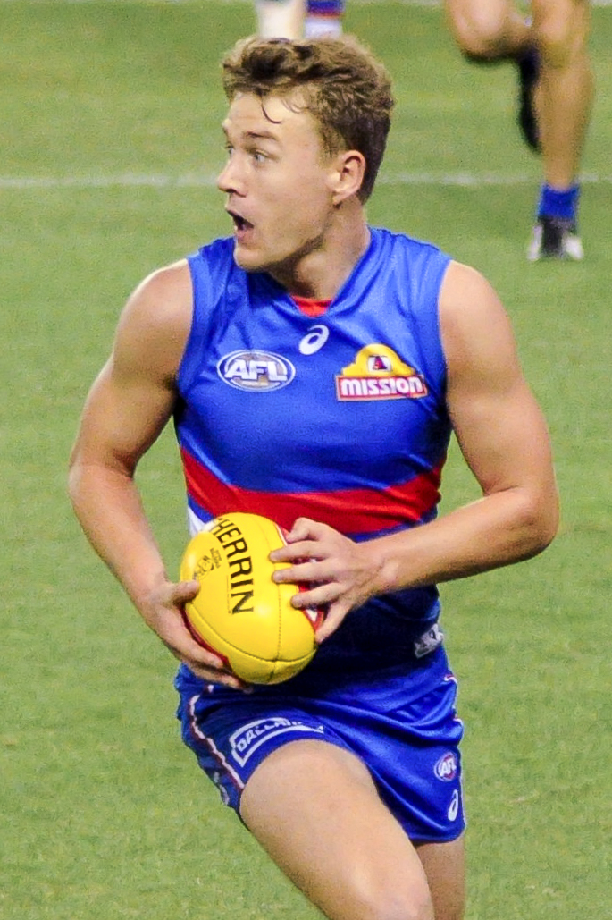 Jack Macrae during the AFL round two match between the Western Bulldogs and Sydney on 31 March 2017 at the Etihad Stadium in Melbourne, Victoria.